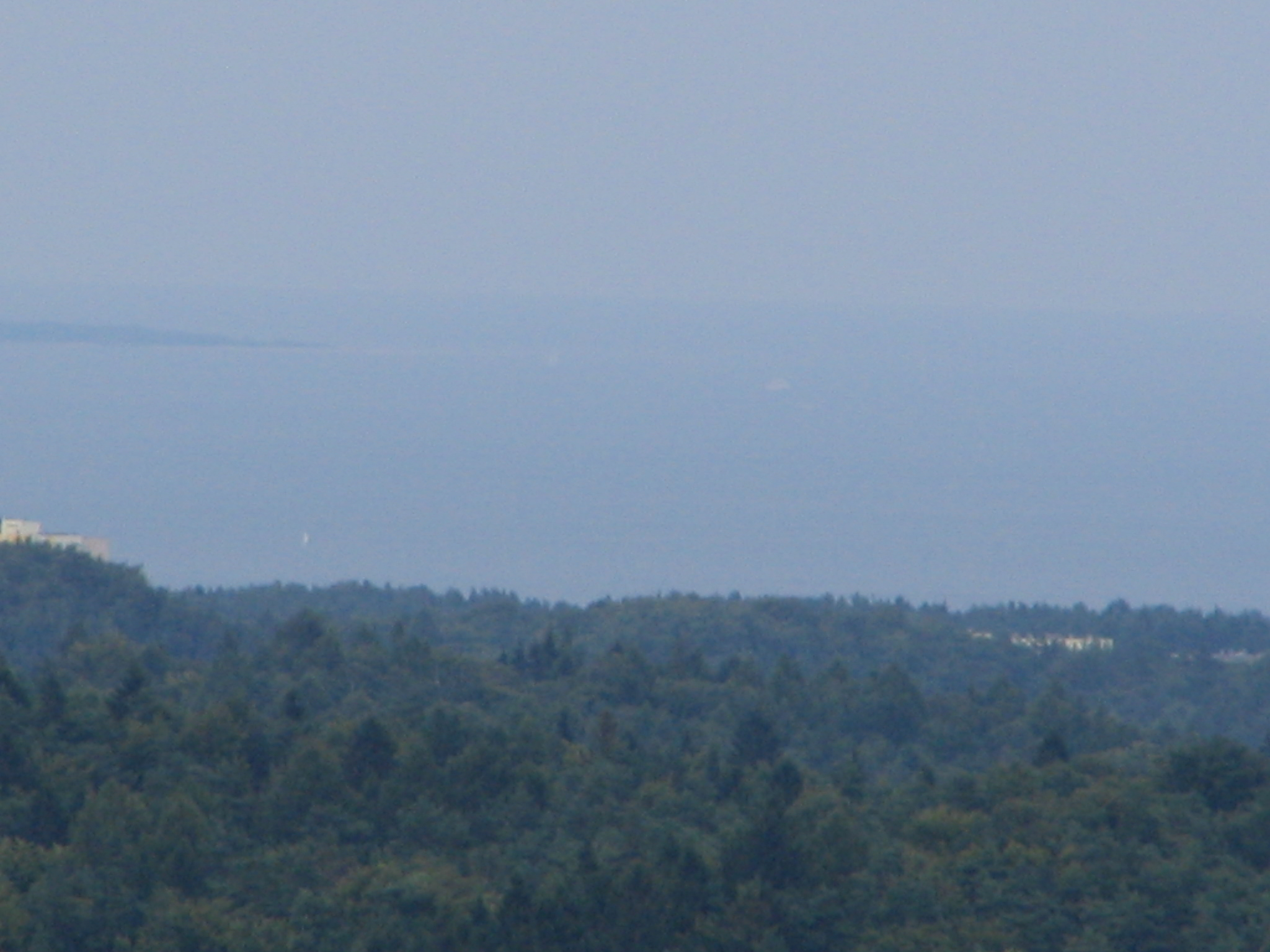 View from Donas mount on the Gdansk Bay and Hela peninsula